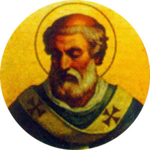 Portait of Pope Leo III in the Basilica of Saint Paul Outside the Walls, Rome